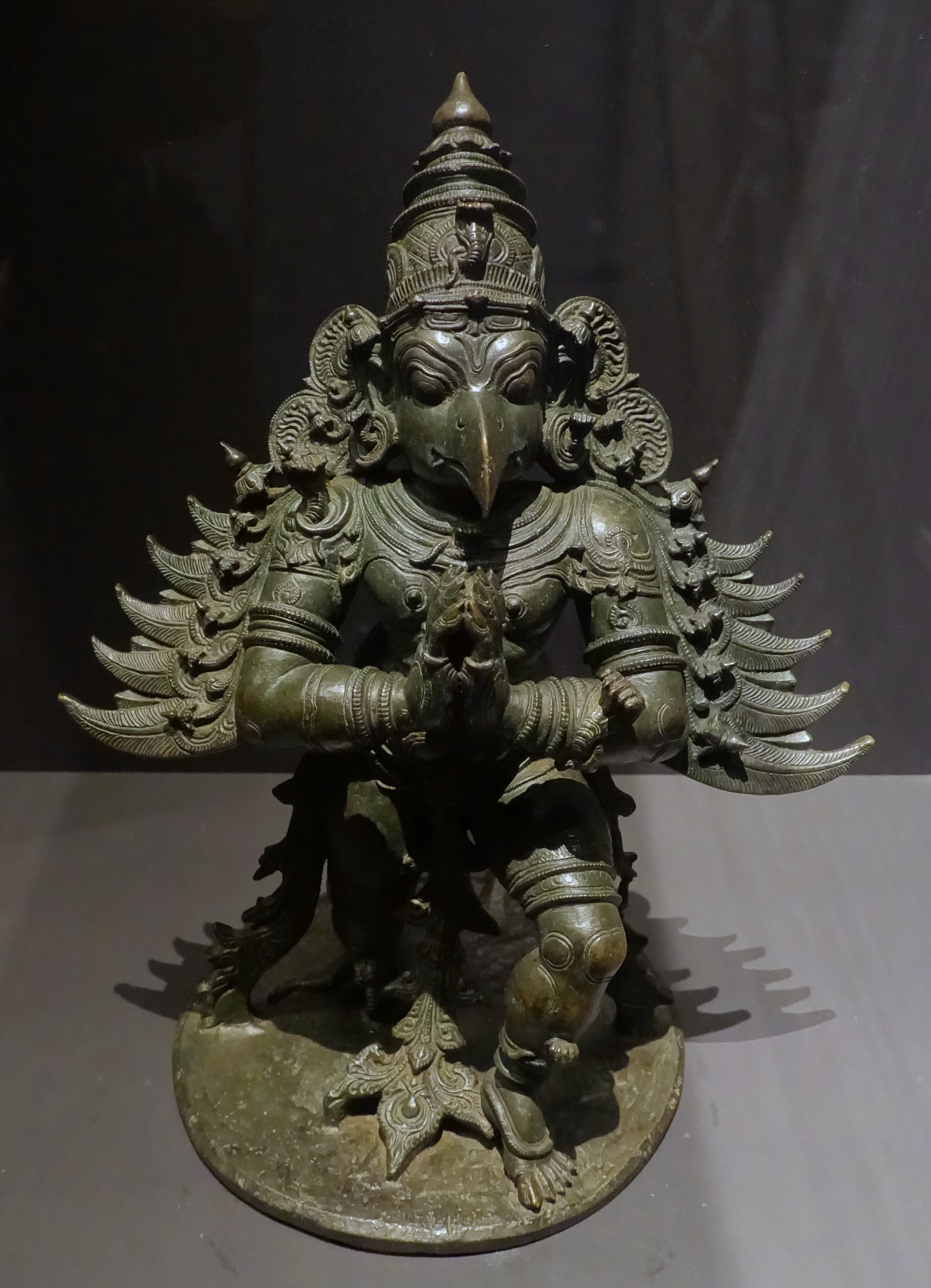 Exhibit in the Linden-Museum - Stuttgart, Germany.